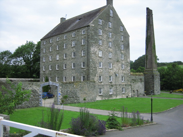 Ballydugan Mill. When the Ballydugan Mill was built in 1792 it was an engineering marvel. The latest technology and the best materials were employed to create a vibrant economic venture: eight vast floors producing flour, bran and starch, powered by water, wind and steam. It has now been restored by the present owner and provides a Cafe, Restaurant, Banqueting & Conference facilities as well as catering for Weddings. There are eleven en-suite rooms and an exhibition concerning the history of the mill on the two topmost floors.